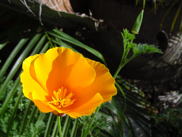 California Poppy (Eschscholzia californica) taken by User:CatherineMunro